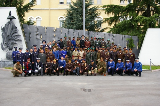 COESPU course Carabinieri(Center of Excellence for Stability Police Units)